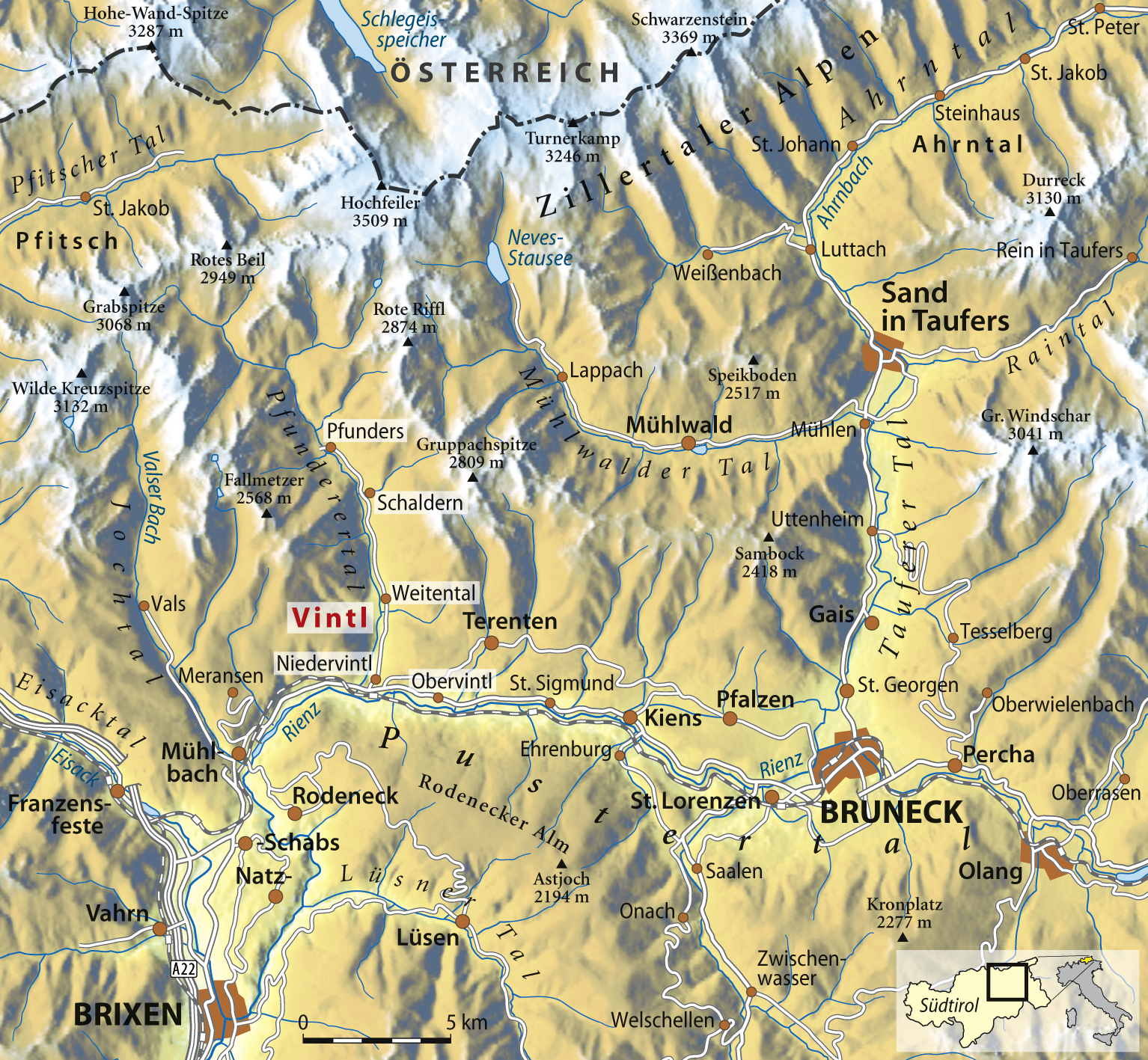 Municipality Vintl in Western Puster Valley